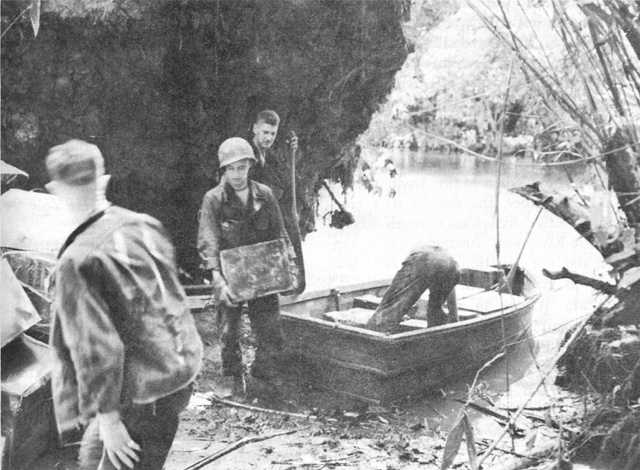 USA-P-Papua-p229 BOATLOAD OF RATIONS is brought up the Girua River, December 1942. (Collapsible assault boat.) milner